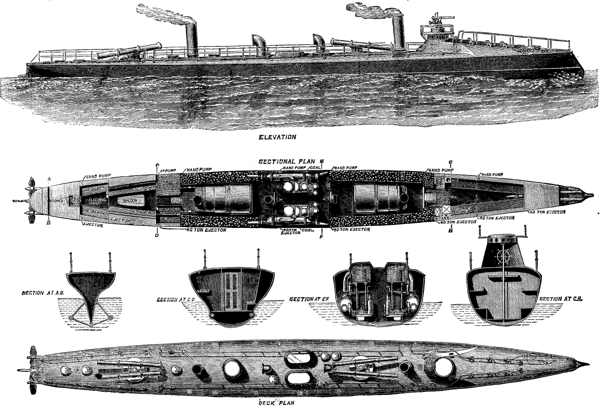 Italian Torpedo Boat 76YA. Built by Yarrow (England) 1886-87.